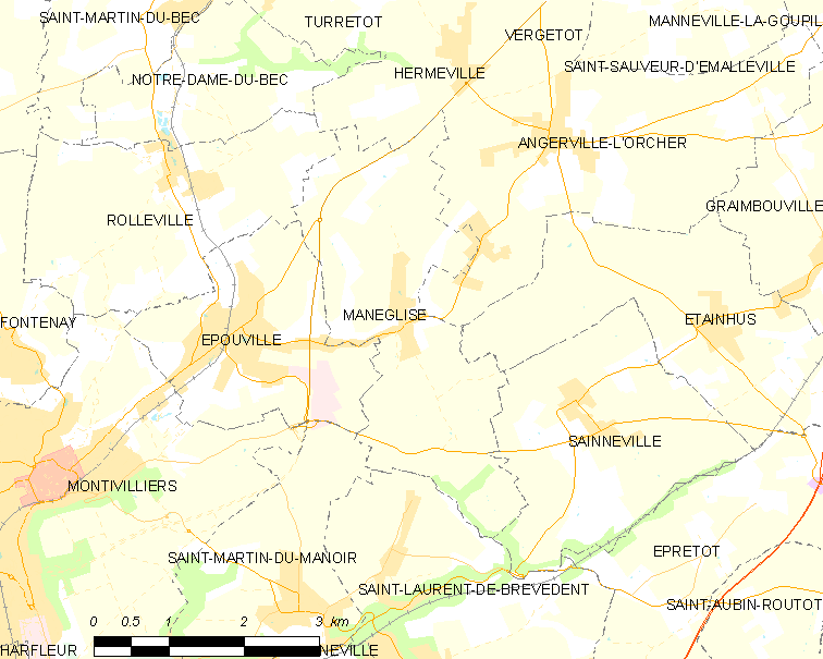 Map of French municipality Manéglise